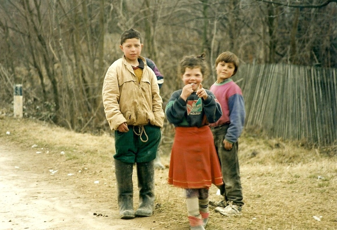 Serbian Childen waiting to be moved from their homes with their parents because they were living on the wrong side of the denmarcation line